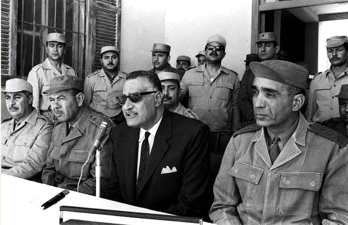 Egyptian President Gamal Abdel Nasser (seated second from right) addressed Egyptian troops at front in the Suez Canal at the beginning of the War of Attrition with Israel. Seated first from the right is Chief of Staff Abdel Moneim Riad.